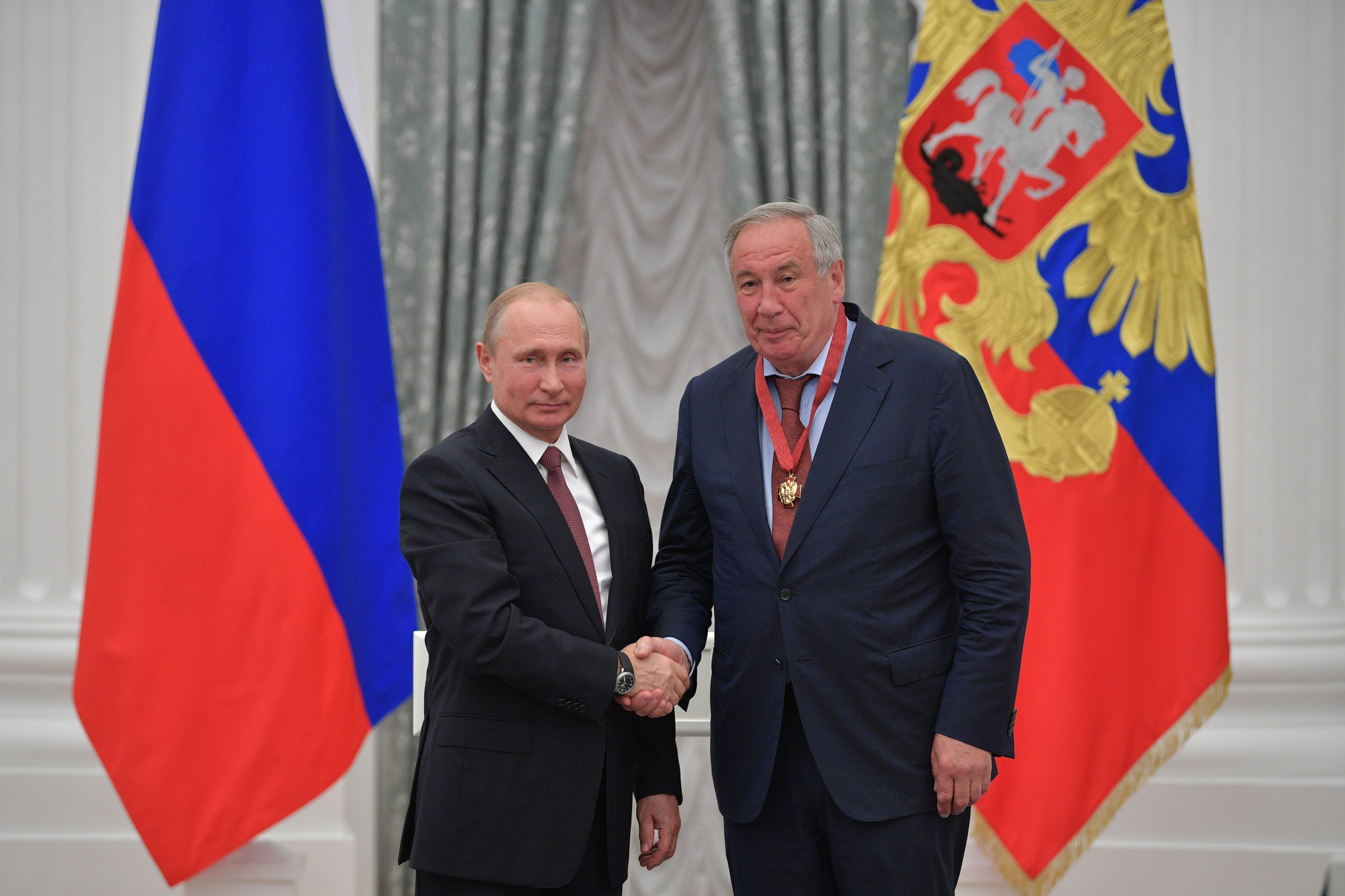 Vladimir Putin and Shamil Tarpishchev at award ceremonies 27 Jun 2018, Kremlin, Moscow.